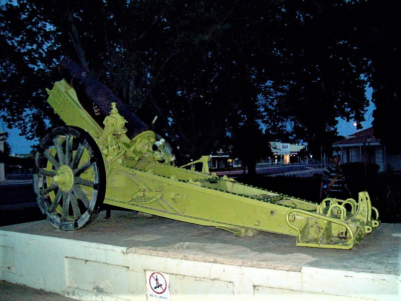 An experimental 21cm Versuchmorser L/10 Mörser manufactured by Krupp in 1906 at Barclay Square, Red Cliffs, Victoria, Australia